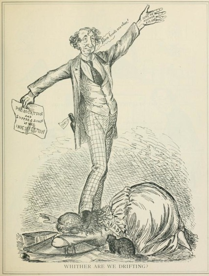 Political cartoon "Whither are we drifting?" by Canadian cartoonist John Wilson Bengough